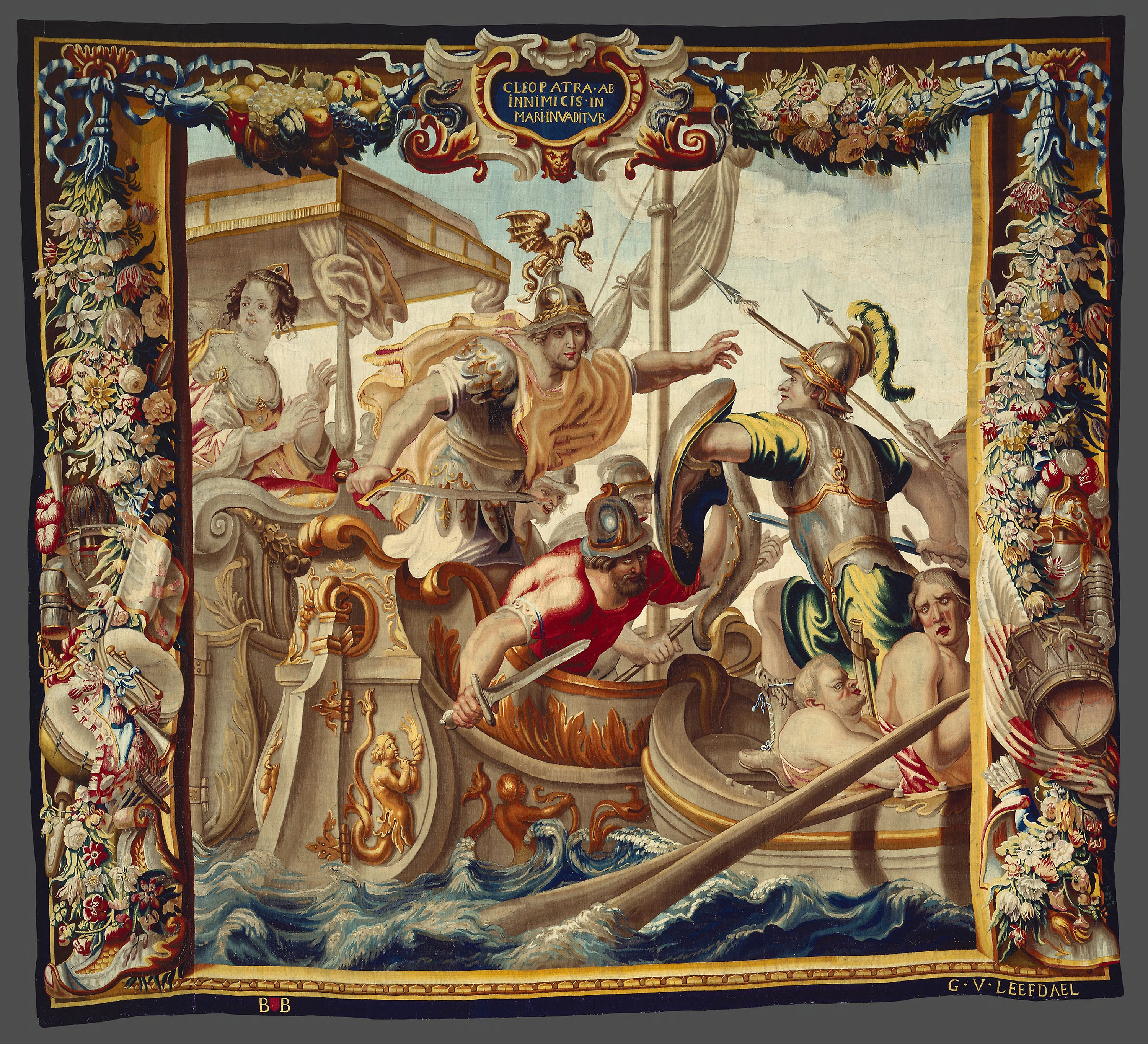 The Battle of Actium from The Story of Caesar and Cleopatra by Justus van Egmont